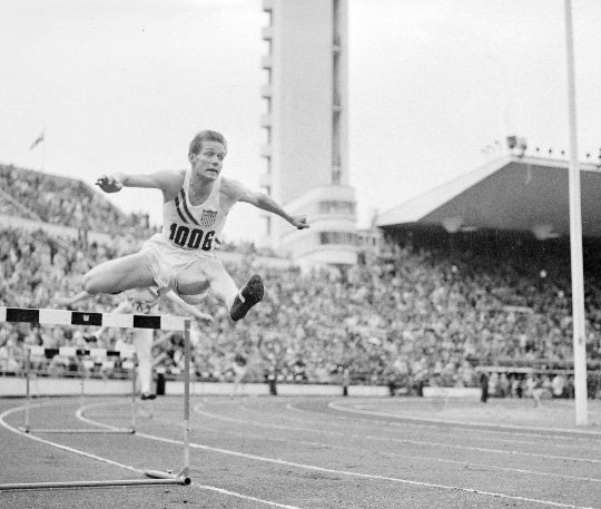 Photograph of the U.S. athlete Charles Moore (1929–) at the 1952 Summer Olympics in Helsinki, Olympic Stadium, during men’s 400 meter hurdles.